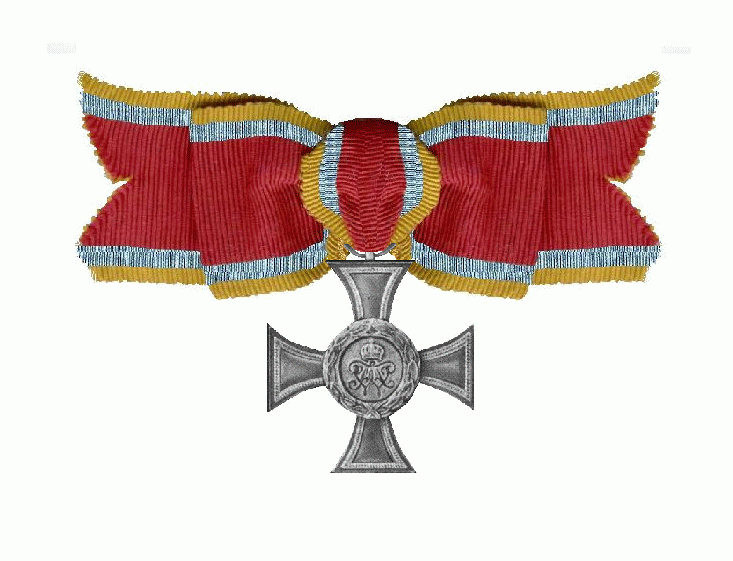 War-Merit Cross of Mecklenburg-Strelitz with ribbon for non-combattants. Kreuz für Auszeichnung im Kriege am Strick für Damen